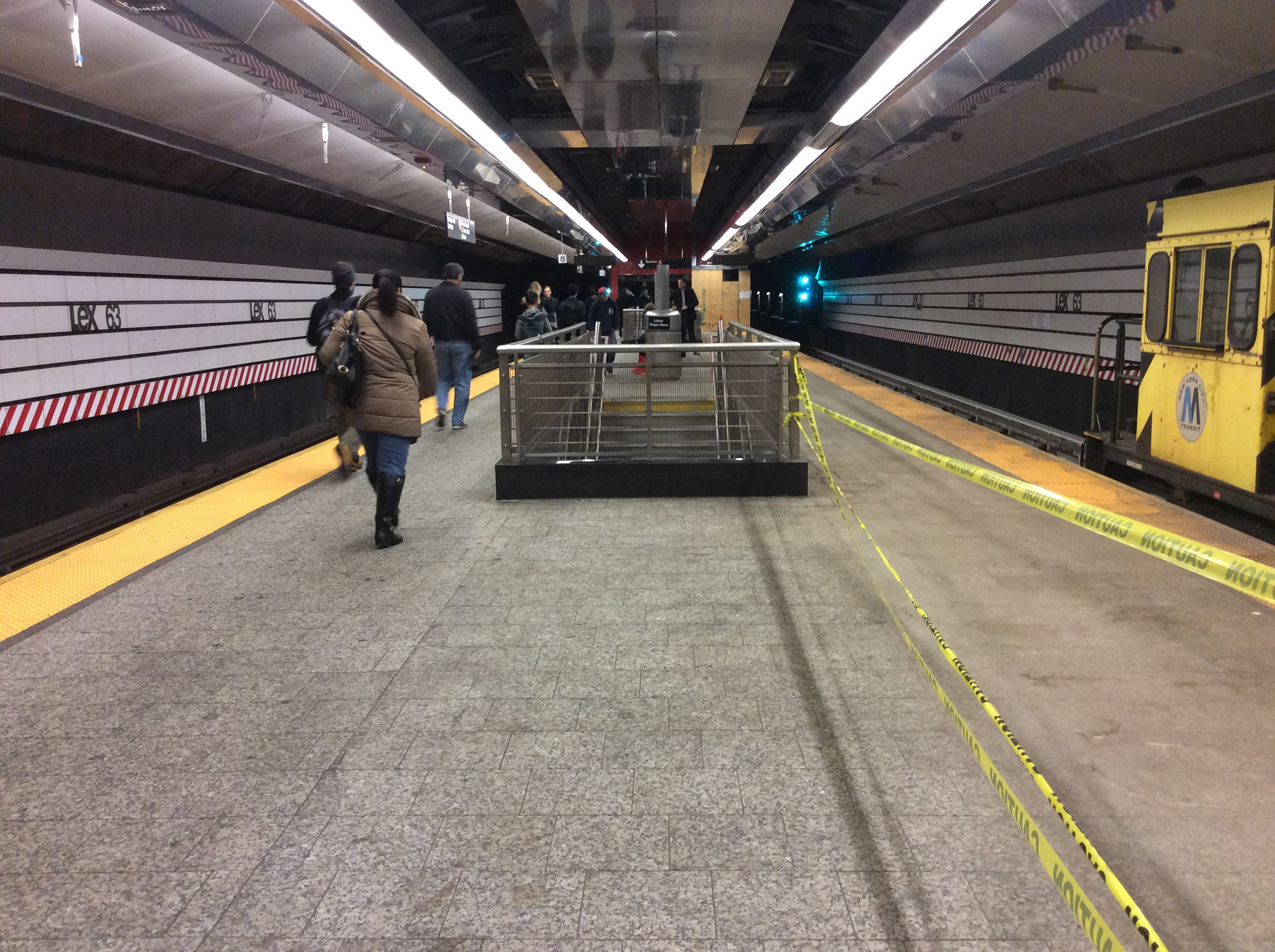 The Lexington Avenue – 63rd Street station's upper level, seen on November 29, 2016.